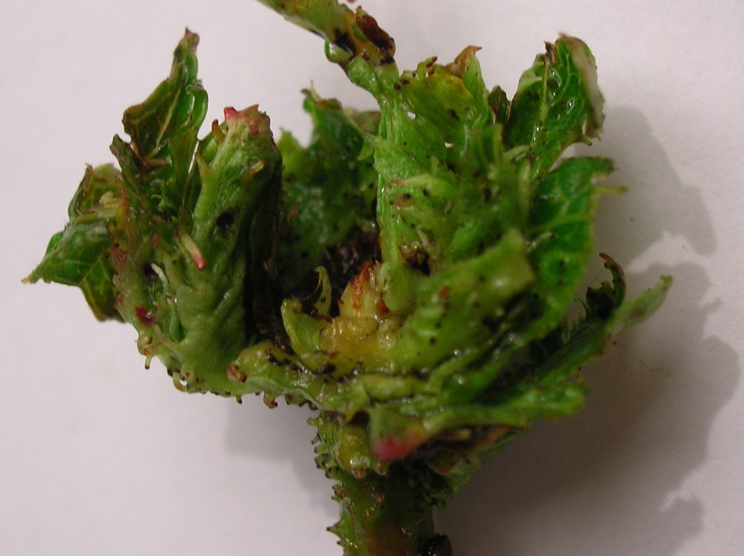 Terminal bud rosette caused by Dasineura crataegi. Spier's, Beith, Ayrshire, Scotland.